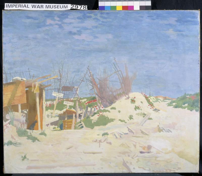 The Main Street, Thiepval image: A view over the tops of trenches as seen from road level. There are small signs on wooden posts, and a mass of barbed wire running along the top of the trench.